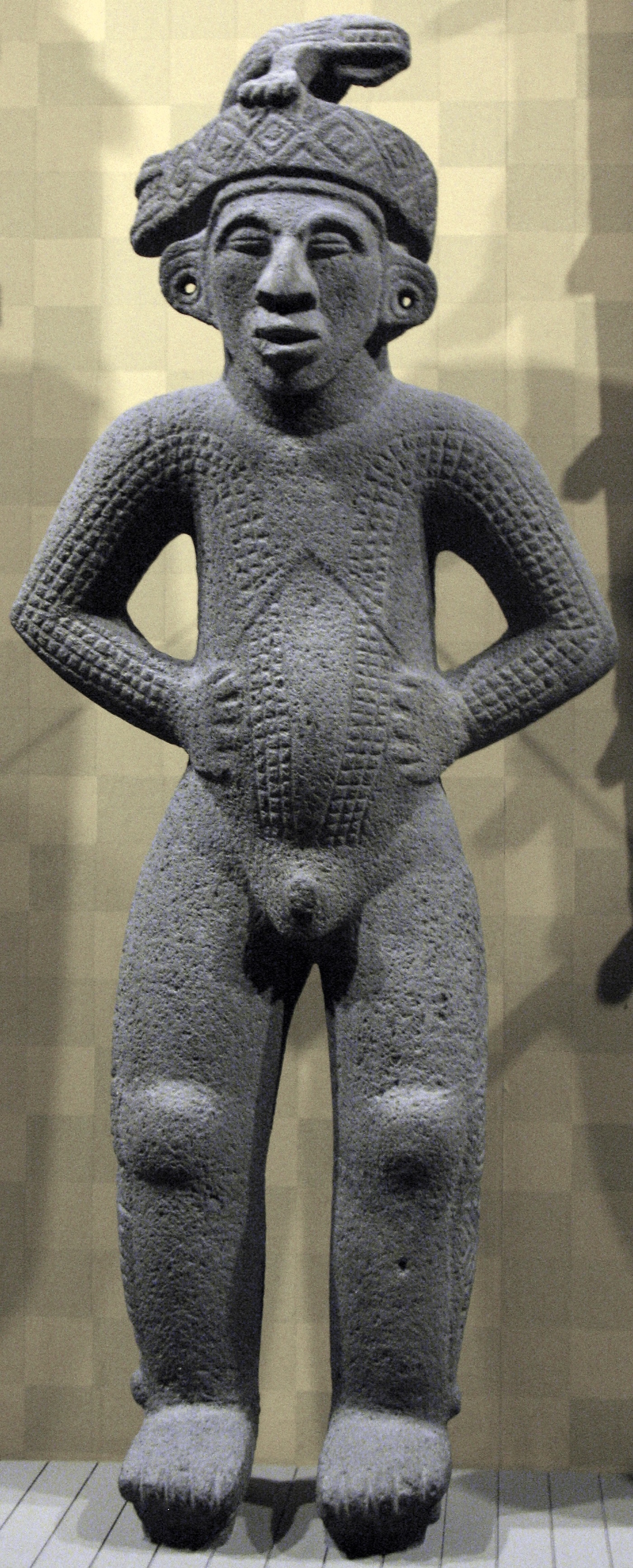 Costa Rican Stone Sculpture, made by Huetar Indians in the 16th century